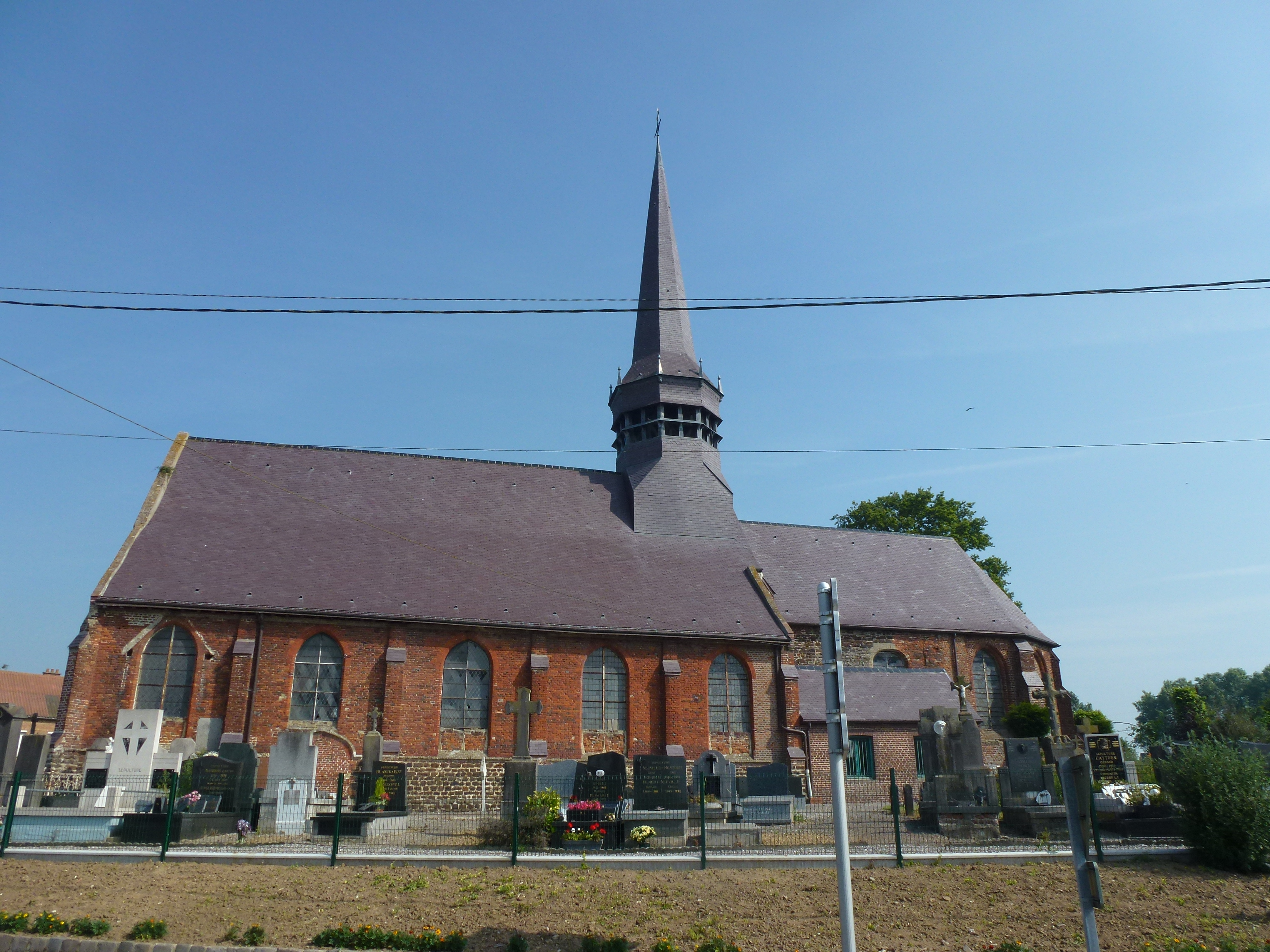 Wemaers-Cappel (Nord, Fr) église